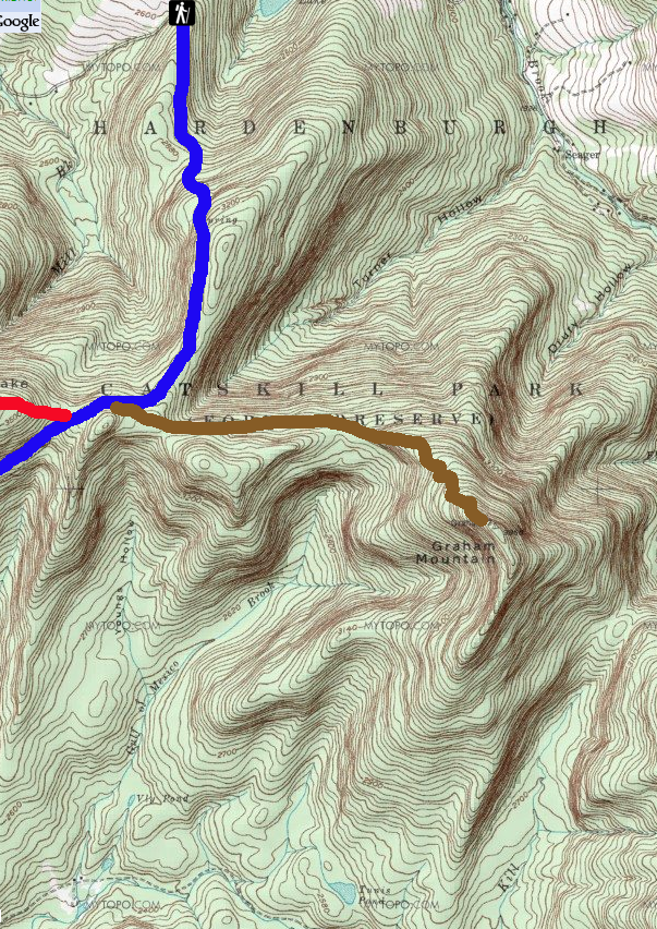 Map showing trails near and old road to summit of Graham Mountain, Hardenburgh, NY, USA